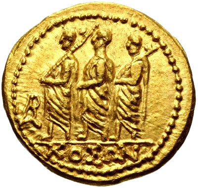 Roman consul accompanied by two lictors.